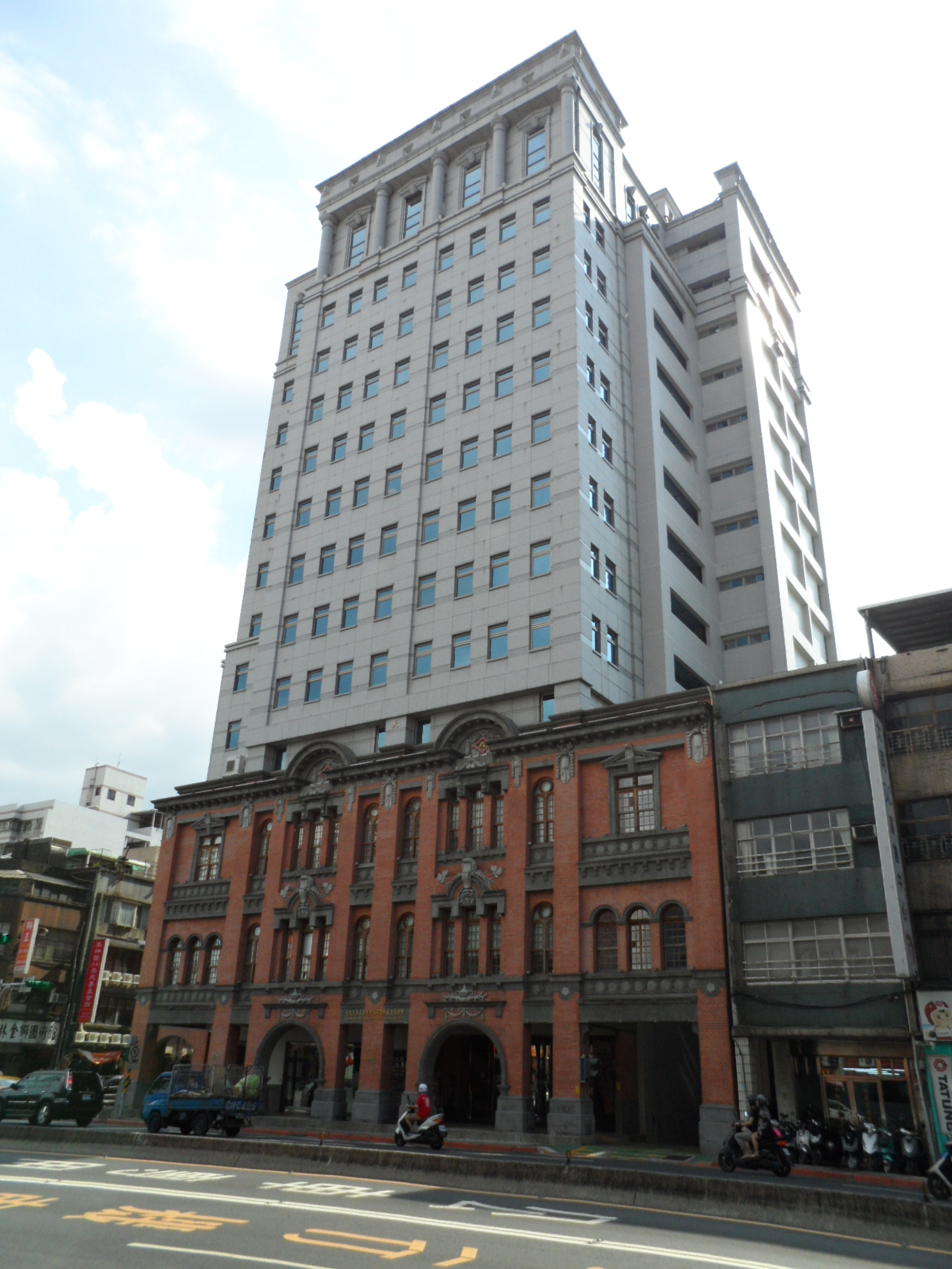 Dadaocheng Building on Section 2, Chongqing North Road, Datong District, Taipei City.